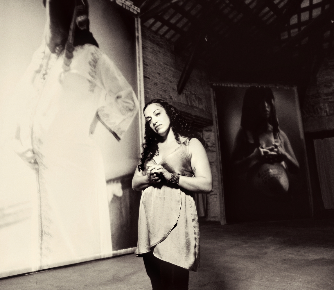 Sama Alshaibi photographed at her two-person exhibition "The Arab Body" in Italy. Behind her are works from her project "Birthright".